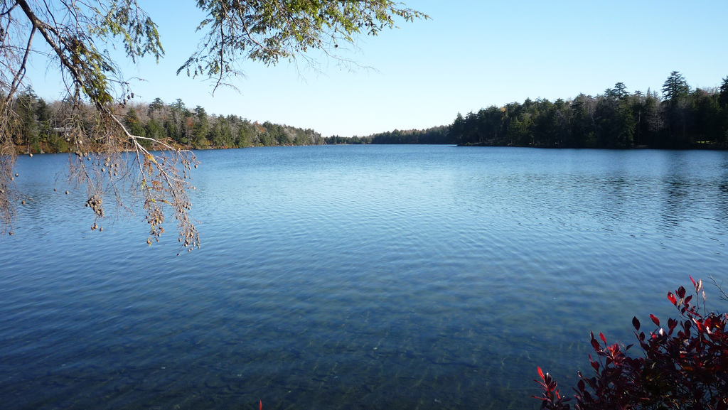 Ganoga Lake in Colley Township, Sullivan County, Pennsylvania in the United States.